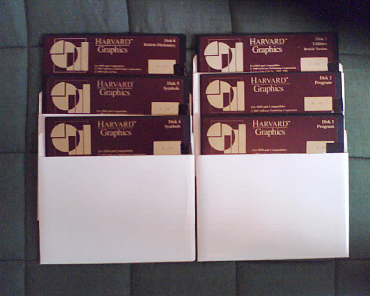 A poor quality image of a set of Harvard Graphics v2.10 floppy disks.